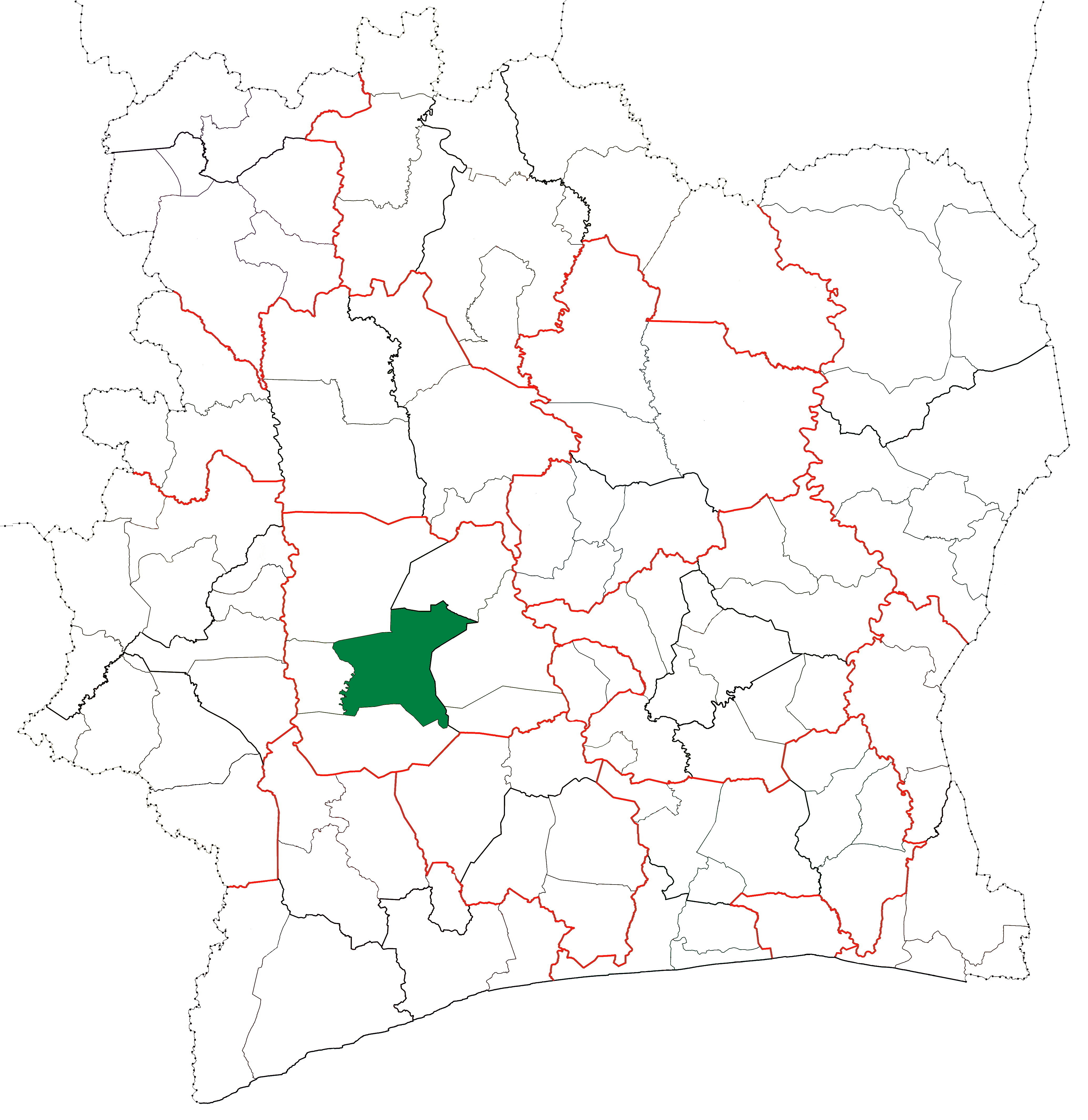 Locator map for Daloa Department in Côte d'Ivoire.